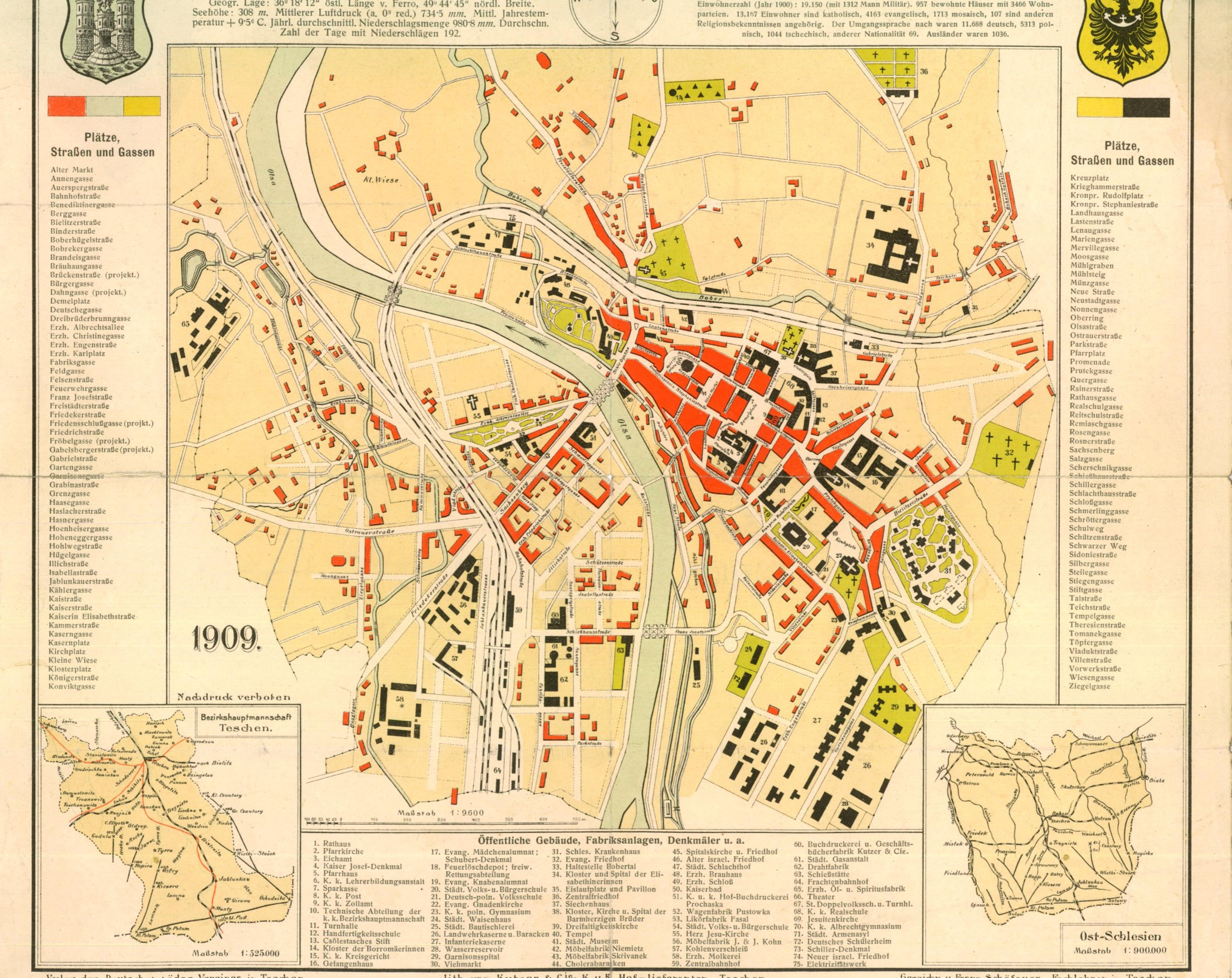 Map of Teschen from 1909 year